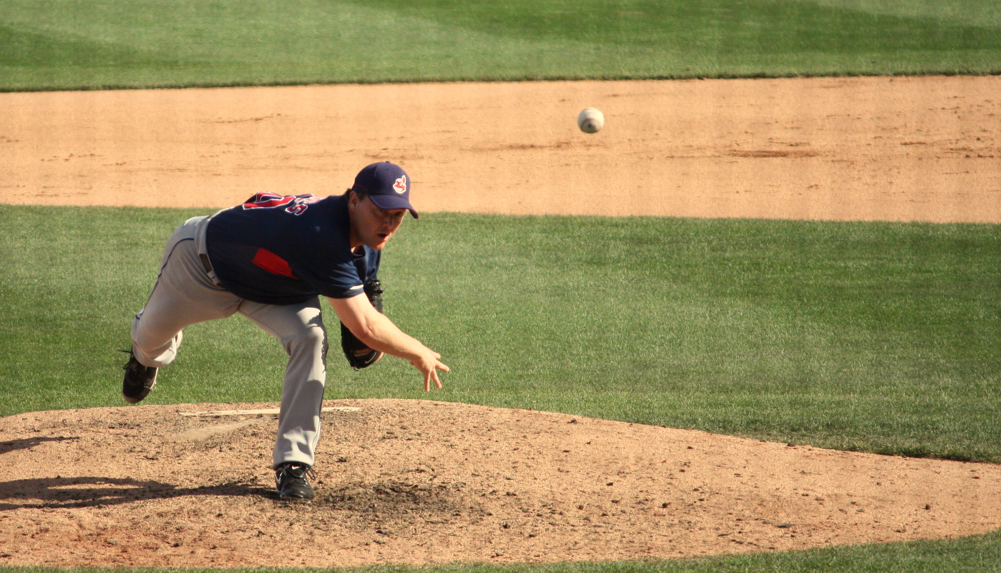 Matt Herges of the Cleveland Indians, Relief Pitcher